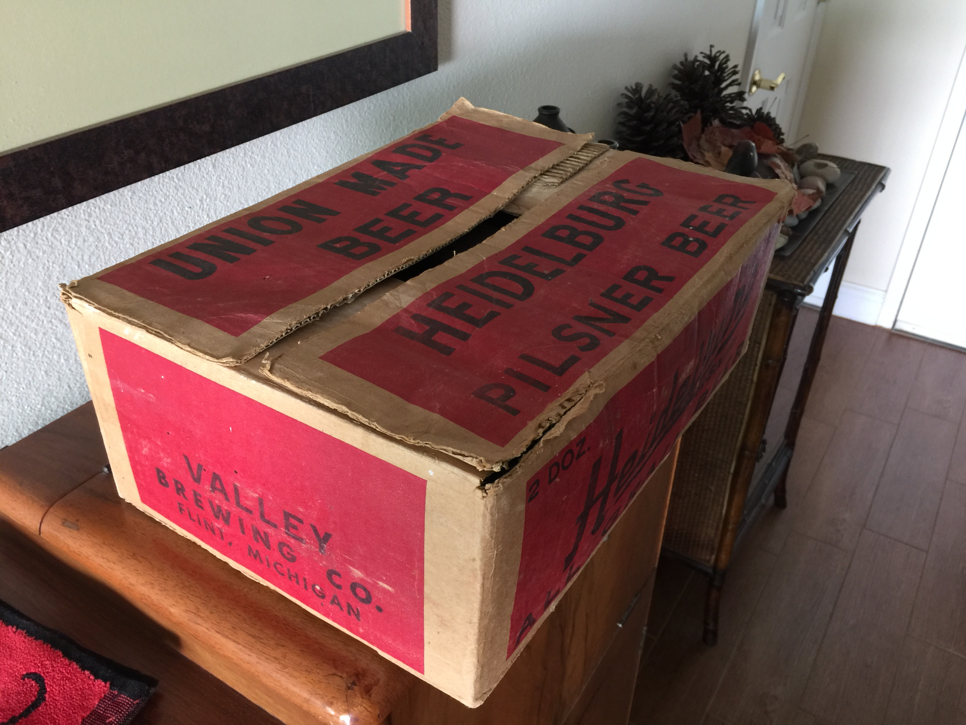 24 12 Ounce Cans